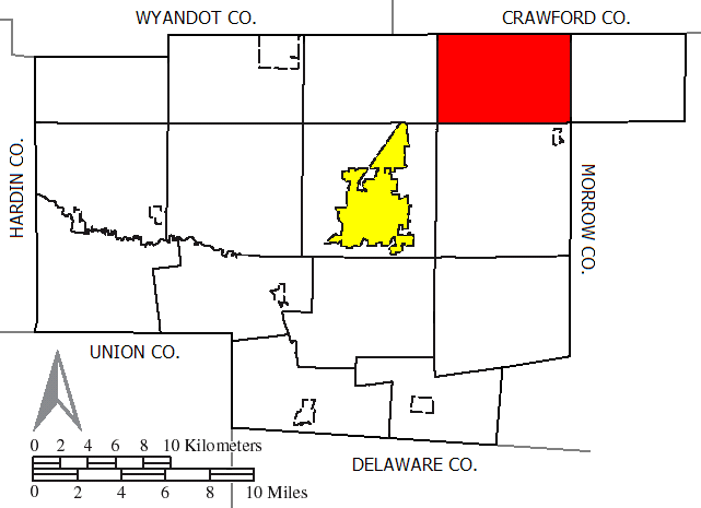 Made by the US Census and modified by myself to highlight the township